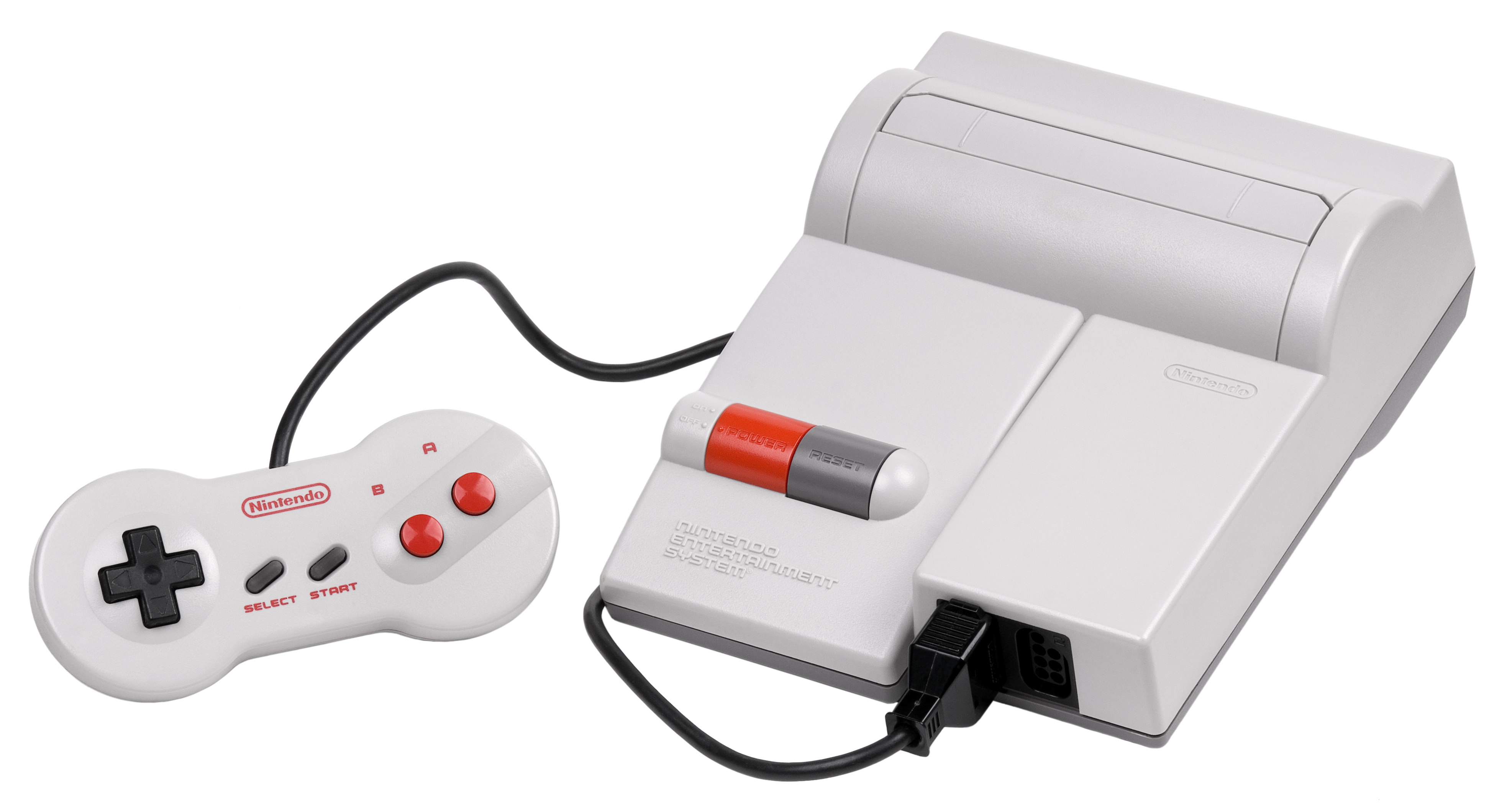 A North American Nintendo Entertainment System, model NES-101, shown with redesigned "bone" controller.